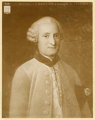 unknown